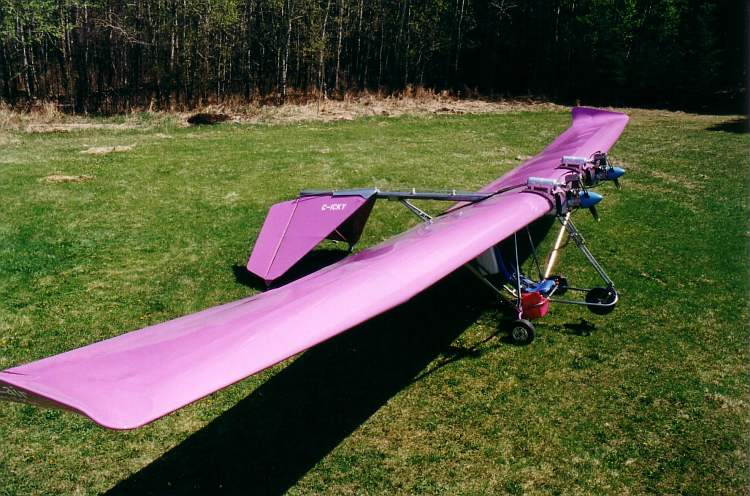 I took this photo of a modified Lazair Series II